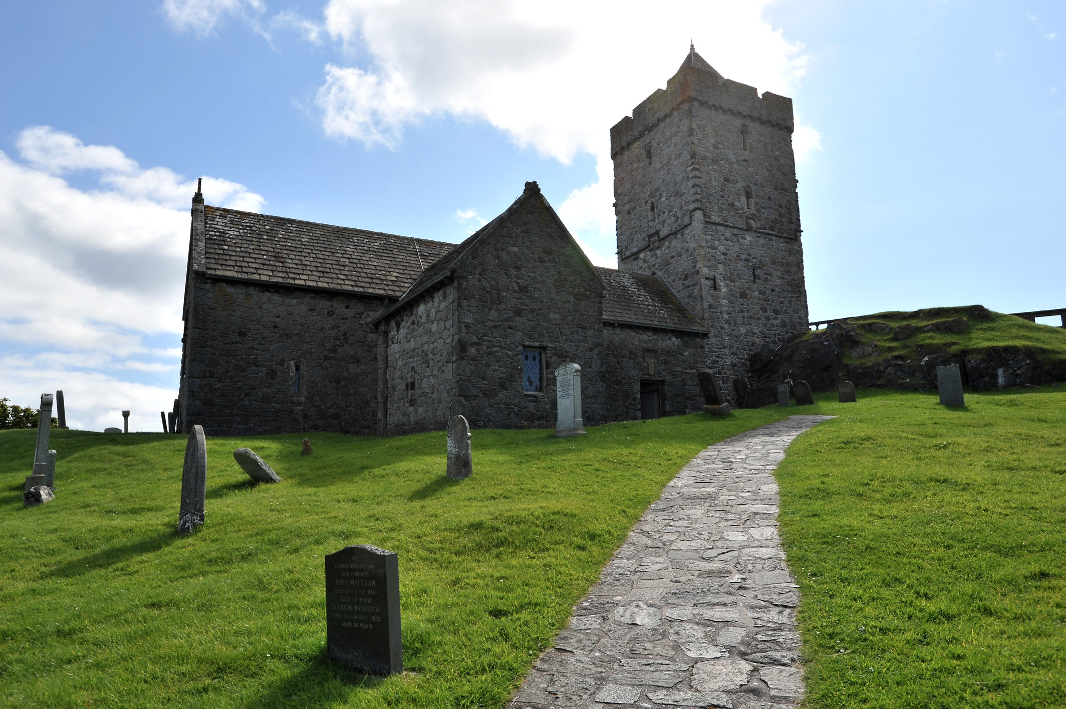 Saint Clement's church in Rodel, Isle of Harris, Western Isles, Scotland.